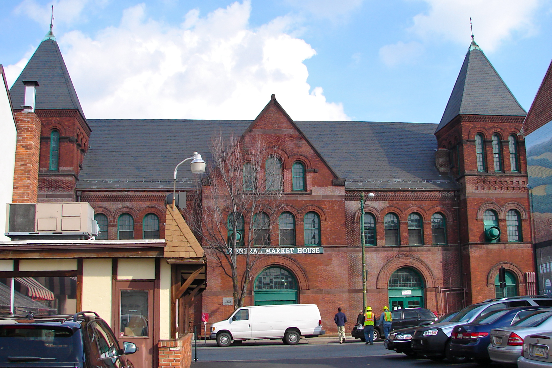 York Central Market on the NRHP since June 9, 1978. At Philadelphia and Beaver Streets, York, in York County, Pennsylvania.